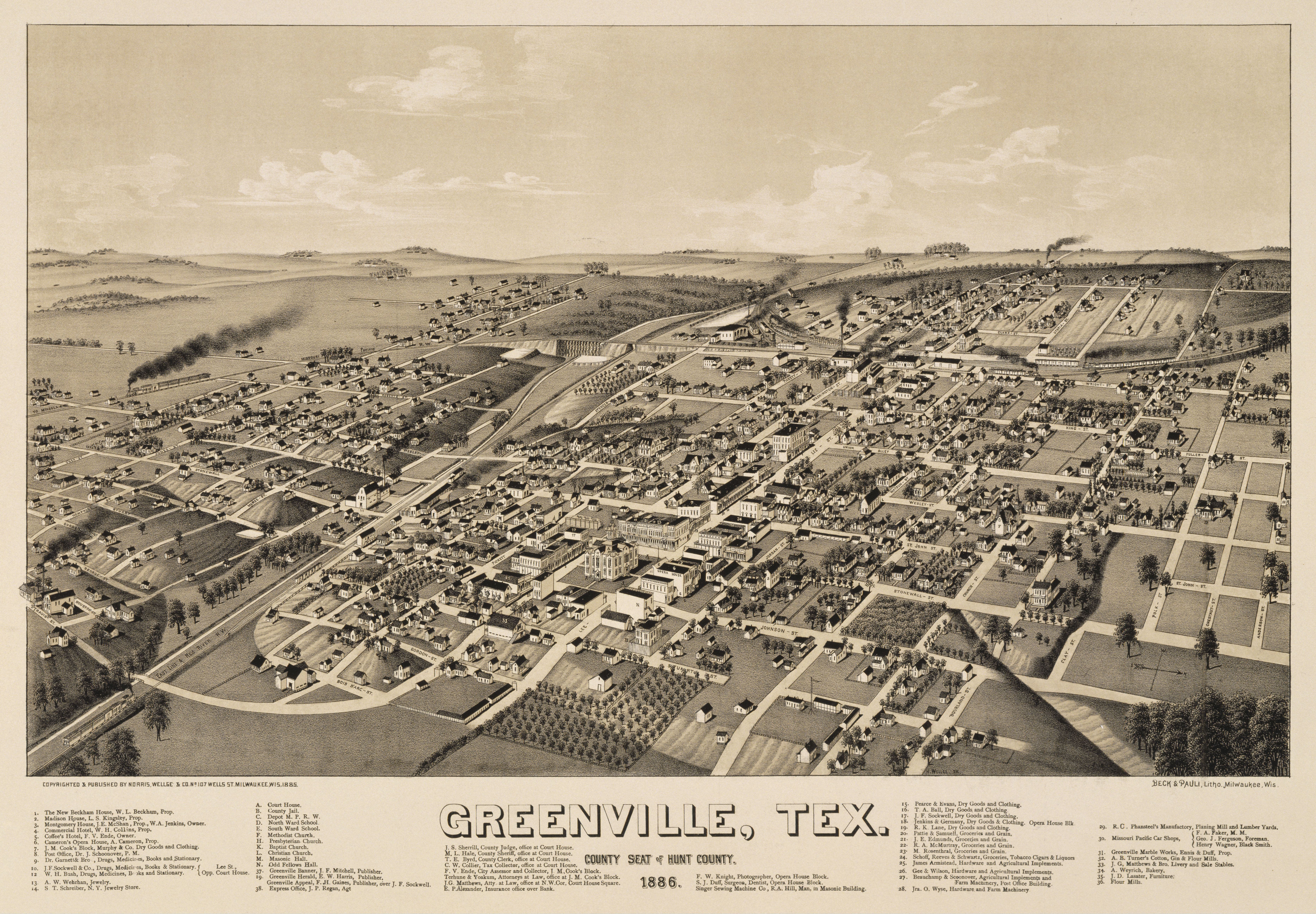 Greenville, Texas in 1886. Greenville, Tex. County Seat of Hunt County. 1886, 1885. Lithograph (tinted), 14 x 23.8 in., by Beck & Pauli, Milwaukee. Published by Norris, Wellge, & Co. Amon Carter Museum, Fort Worth.